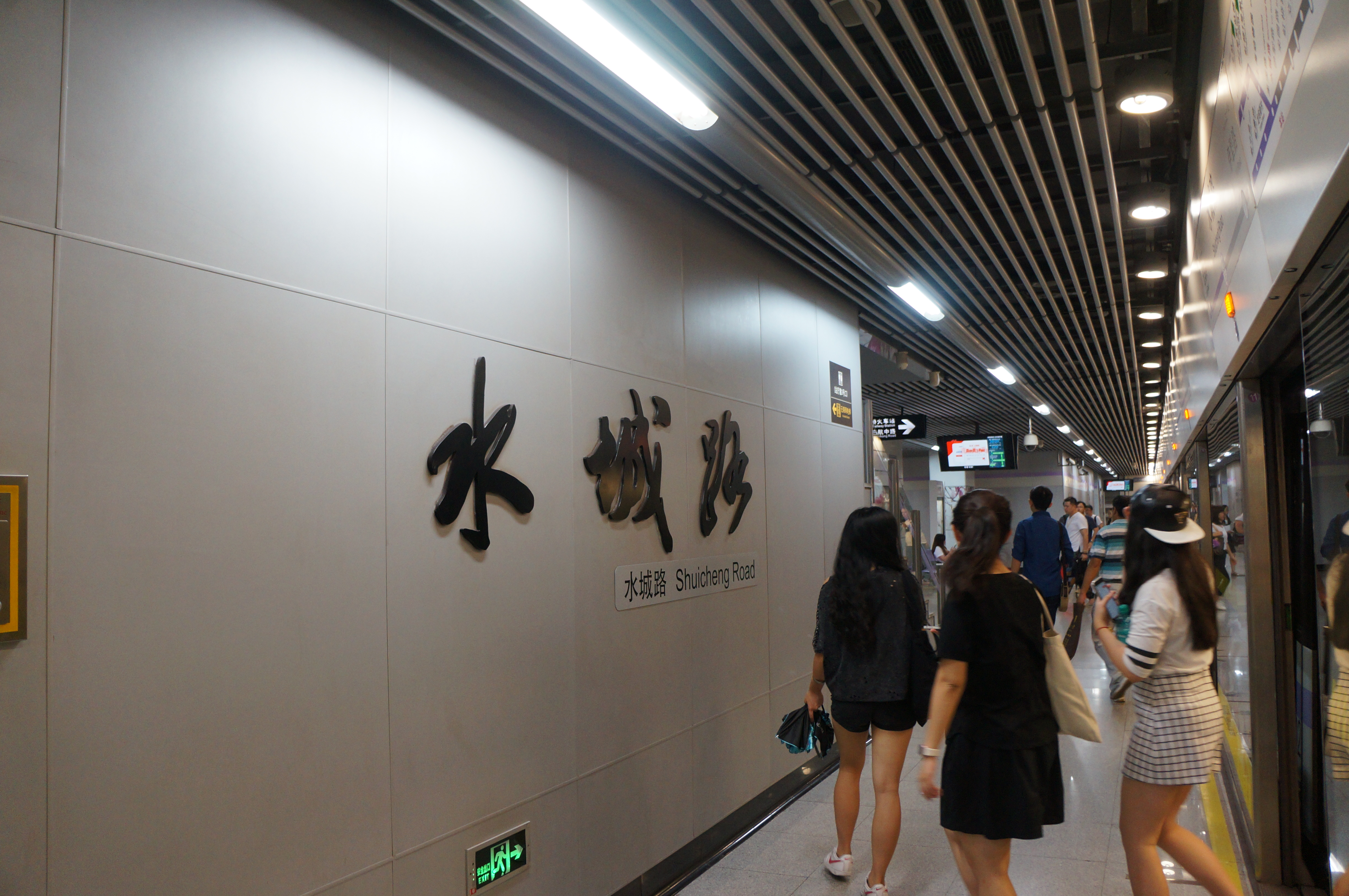 201609 Shuicheng Road Station